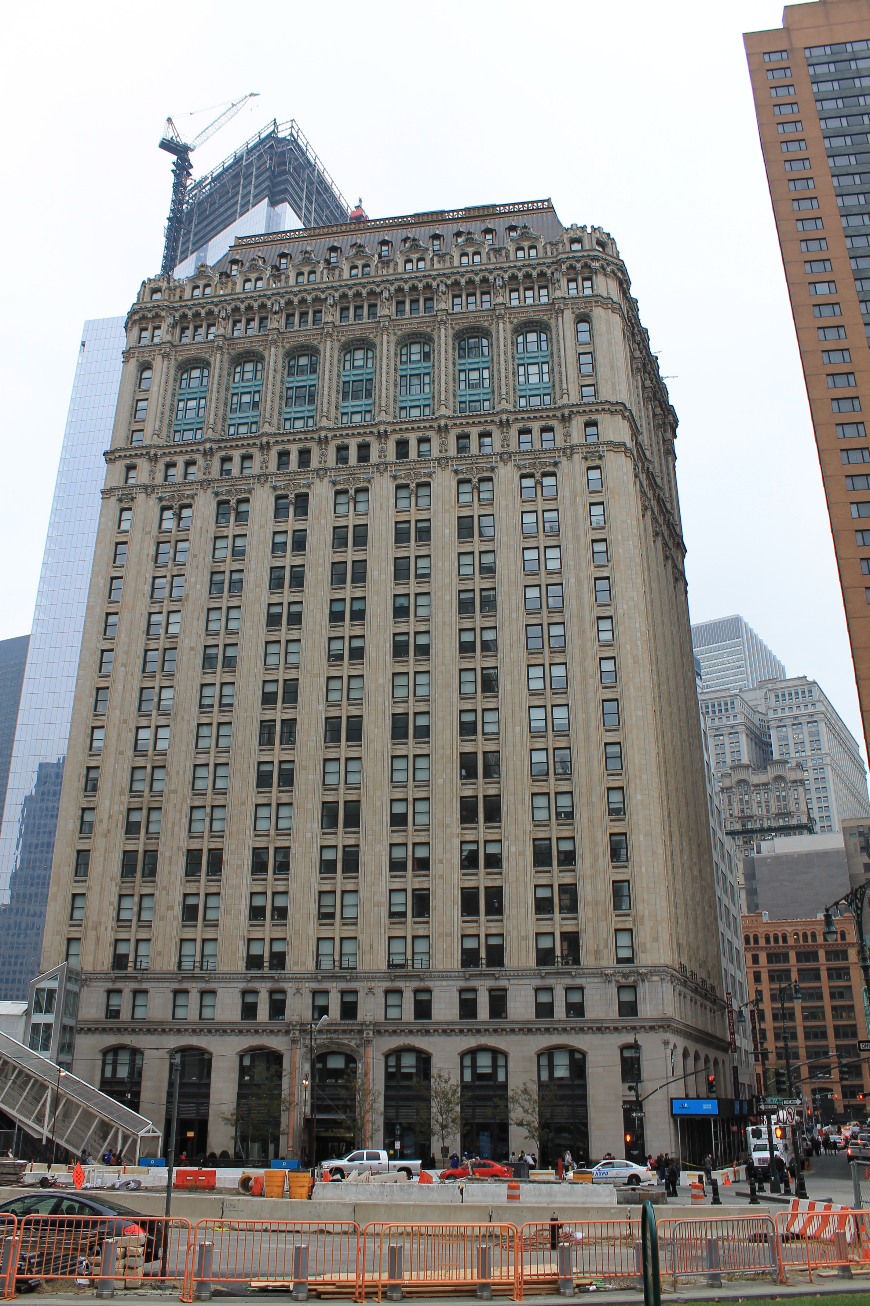 The Ground Zero Area